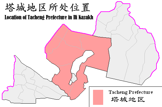 Tacheng Prefecture, Xinjiang, China